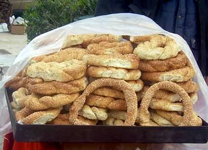 Koulouria (in Greek), Simit (in Turkish) Two different kinds. Photo by User:FocalPoint.